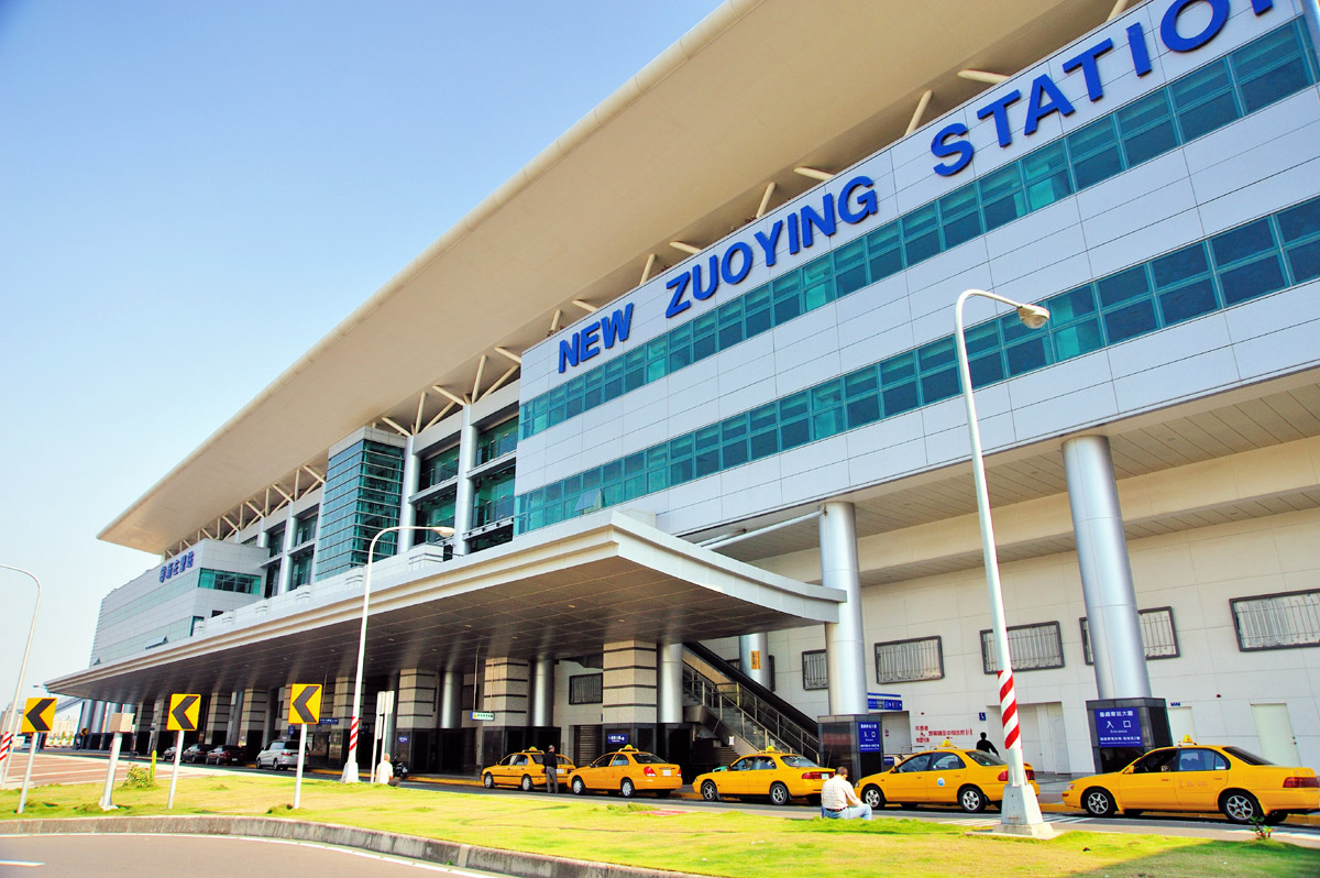 New Zuoying Station is a major train station of Taiwan's Western main rail line. It locates within the boundary of ZuoYing District, KaoHsiung City. TRA New ZuoYing Station is part of the united station sharing by TRA, THSR, and KRTC. Although called "New ZuoYing" by TRA, the same station is named "ZuoYing Station" by THSR and KRTC.